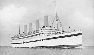 His Majesty’s Hospital Ship Aquitania during World War I.